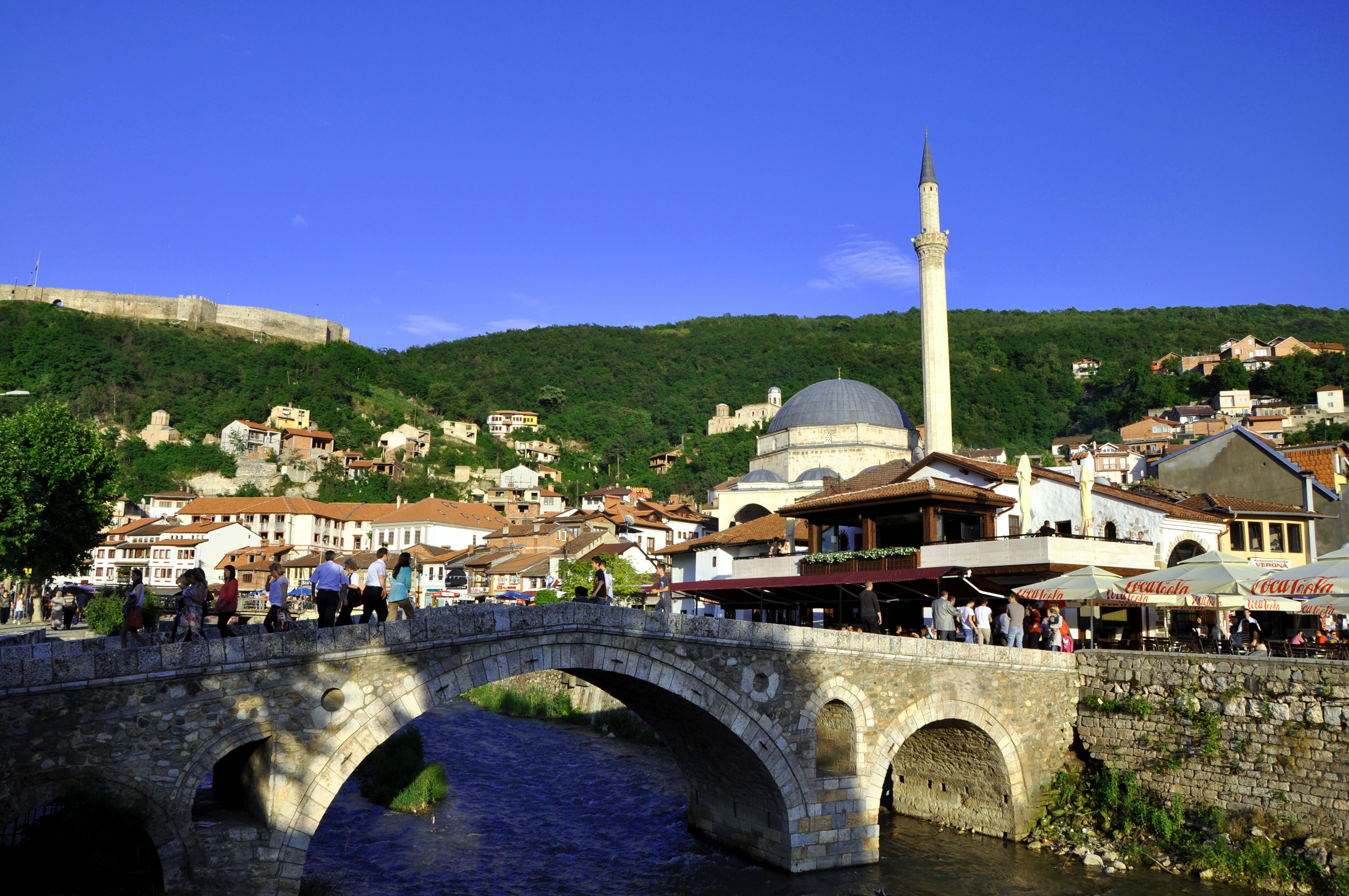 Stone bridge